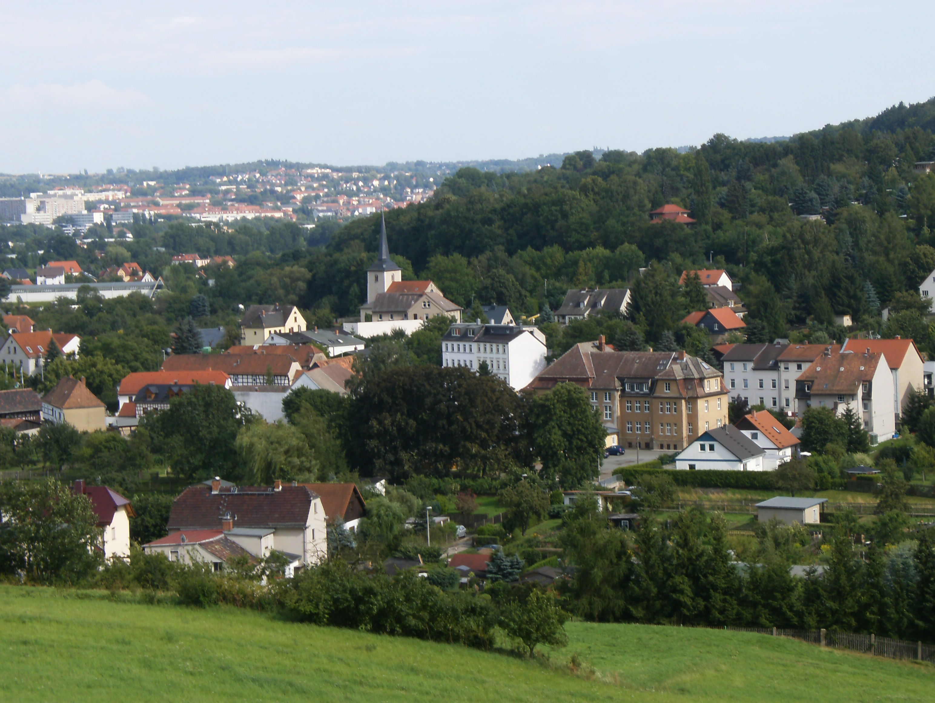 Thieschitz, suburb of Gera (Thuringia), village view.